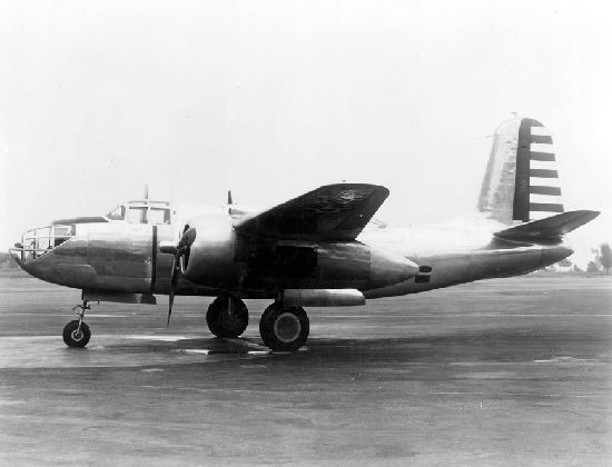 Douglas BD-1, U.S. Navy version of the A-20 "Havoc" attack aircraft. One example tested in 1940, no contract placed due to production limitations.